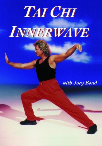 Tai Chi master Joey Bond is a child hood friend of Michael Laucke. This Tai Chi program was the longest running “How To” series on the PBS Network and could be viewed from 1994-2002 . Note for copyright purposes, this photo was taken by an employee who was also a photographer hired by Michael Laucke. It is a work for hire, owned and paid for by Michael Laucke, and given to Joey Bond for his personal use. It is hereby licensed under Public Domain Dedication (CC0); ALL RIGHTS WAIVED!